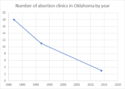 Number of abortion clinics in Oklahoma by year. Data is from articles linked at